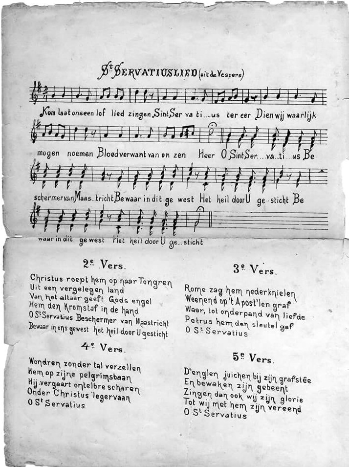 Text and music of the so-called St. Servatiuslied (Hymn of Saint Servatius). A page from the festive brochure of the 1500th anniversary of the death of Saint Servatius, published in 1884.